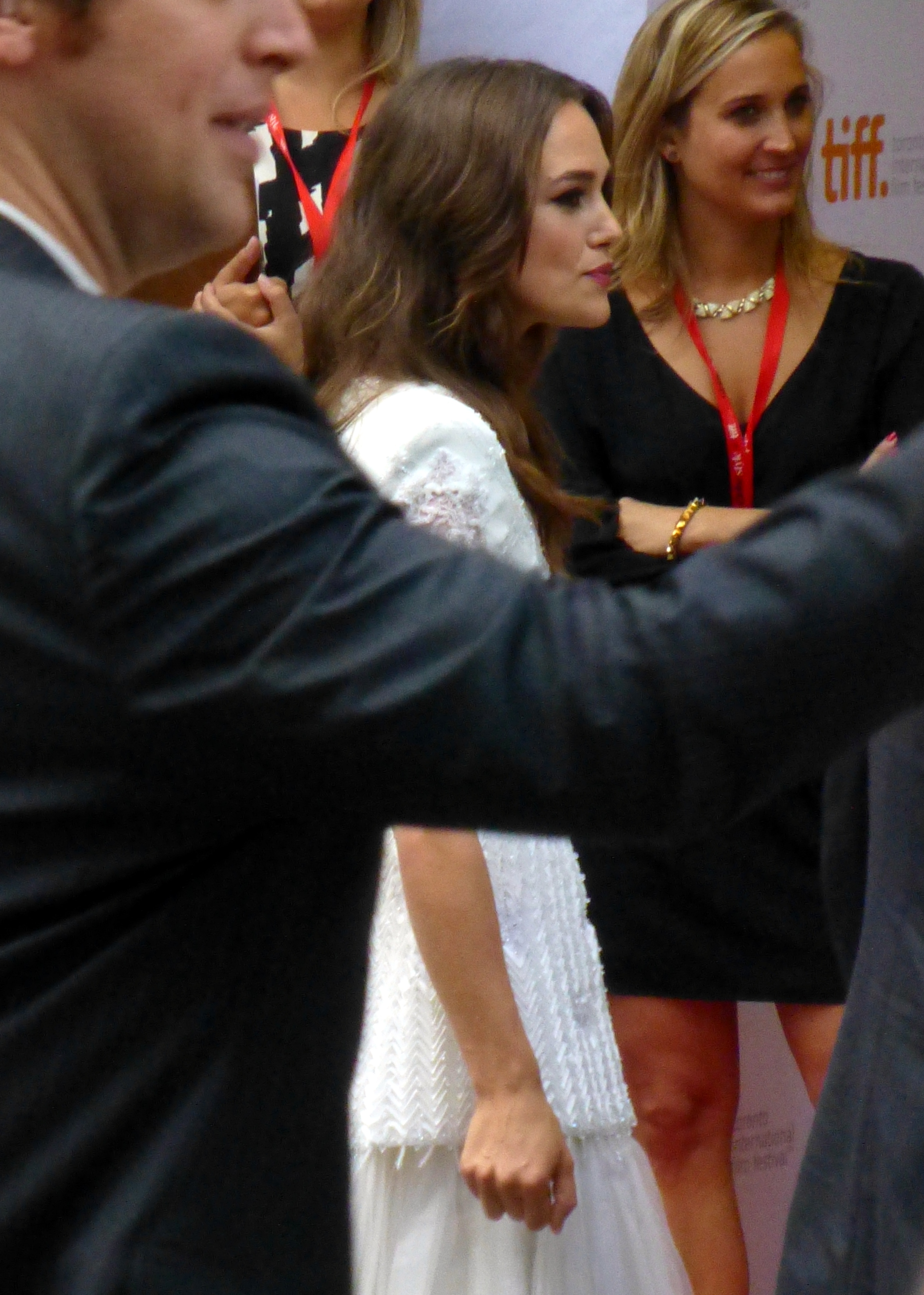 Keira Knightley at the premiere of The Imitation Game, 2014 Toronto Film Festival